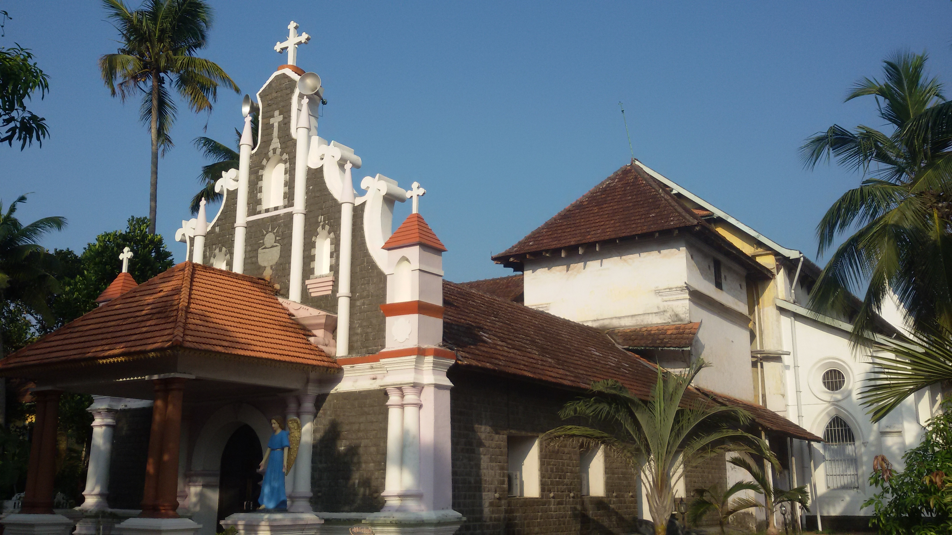 Kottakkavu Mar Thoma Syro-Malabar Pilgrim Church (old) founded by St. Thomas the Apostle and rebuilt in 9th century by Mar Sabor and Mar Proth. This is the third church.